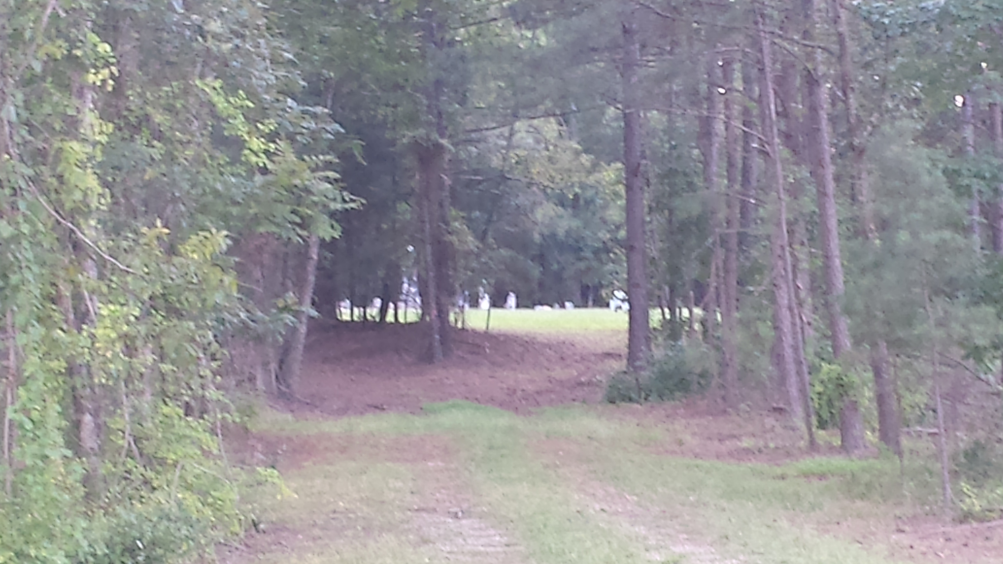 Crawford-Dorsey Cemetery, Freeman and McDonough Rds. Lovejoy